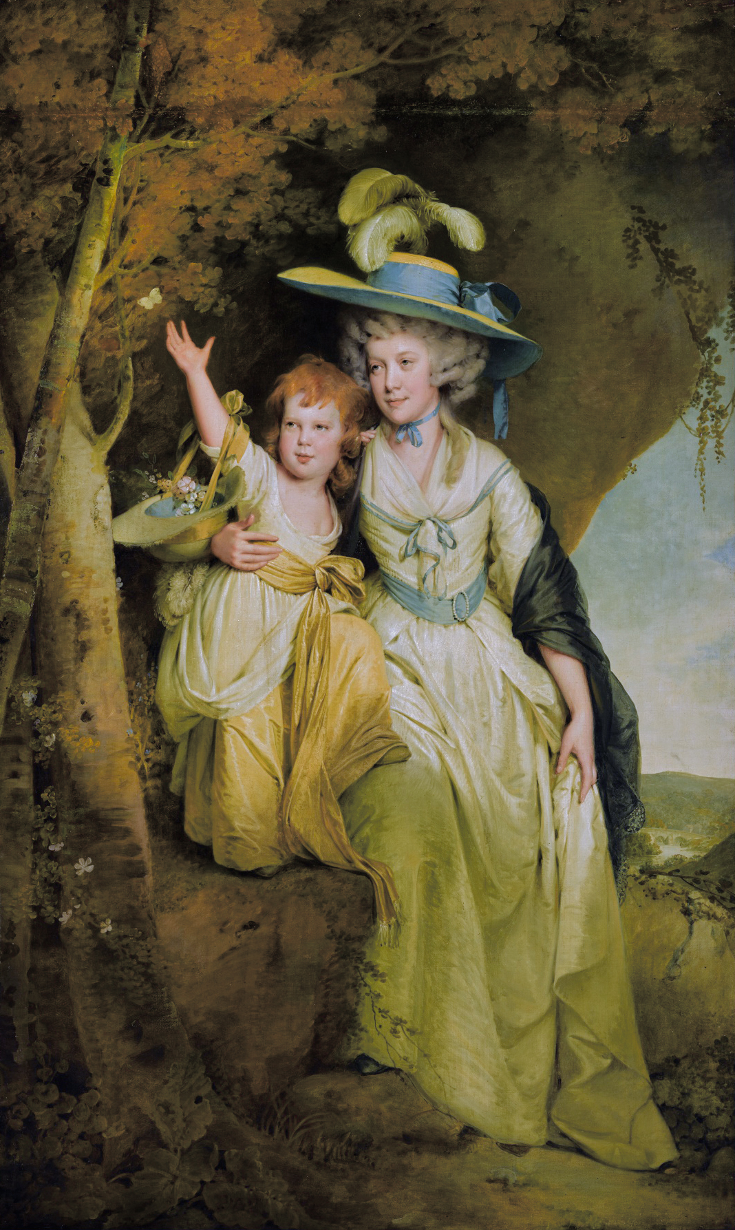 Susannah Arkwright, mrs Charles Hurt (1762–1835) and her daughter Mary Anne oil on canvas 232 x 140 cm after 1780